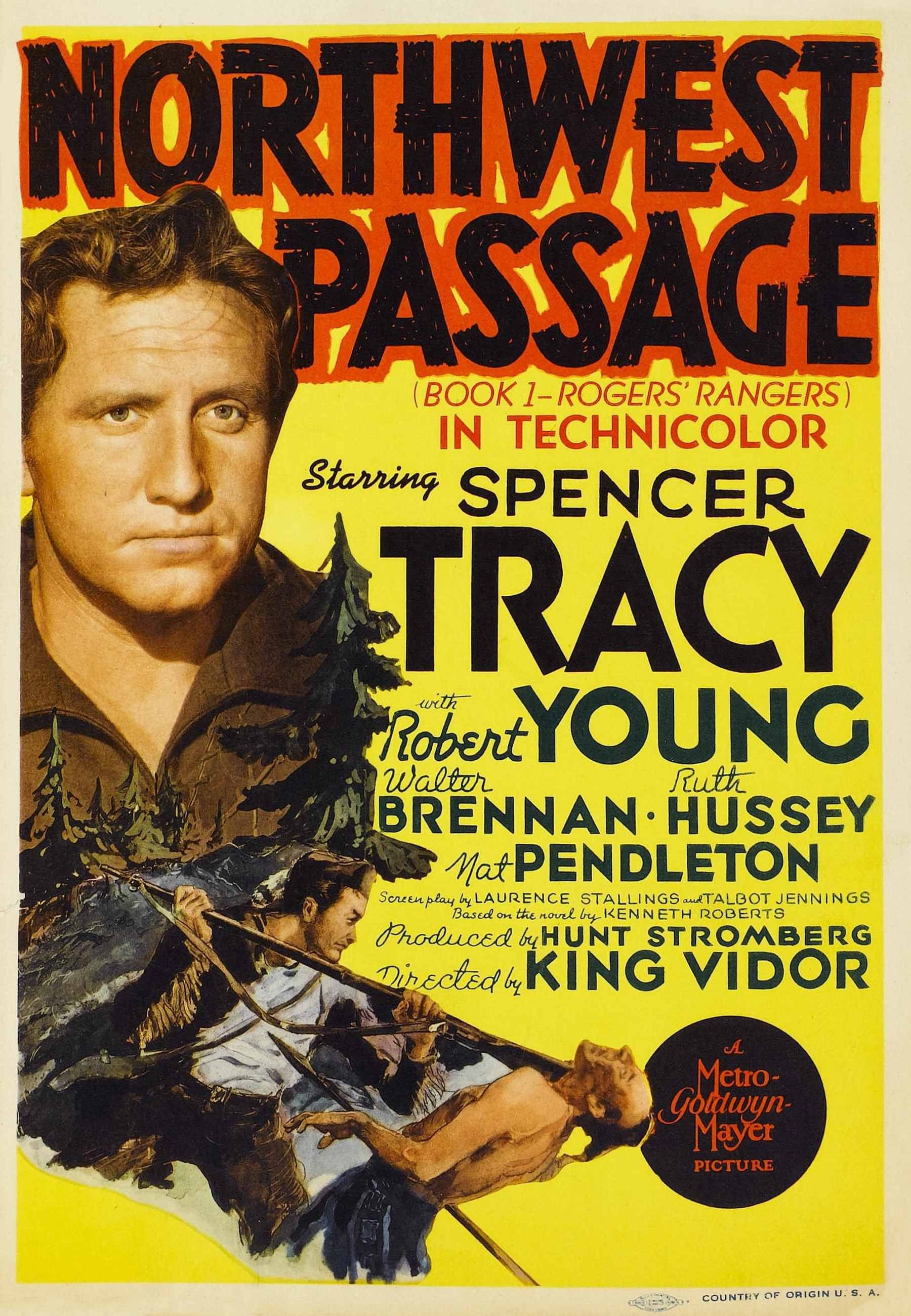 Poster for the 1940 film Northwest Passage. The item has no copyright marks as can be seen in the links. At bottom right is a logo indicating the poster was printed by a union print shop and Country of origin USA.